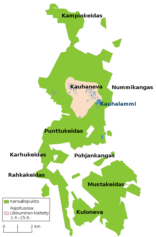 Map of the Kauhaneva–Pohjankangas National Park. The park locate in Finland.